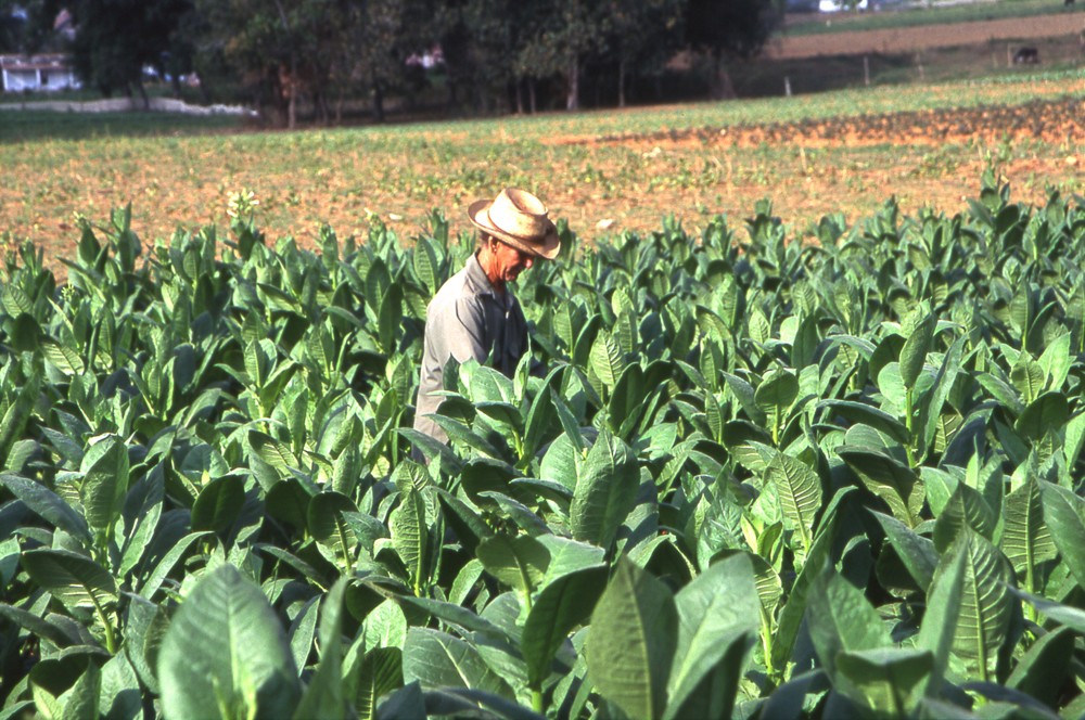 A tobacco field in Pinar del fitta, Cuba. The flowers are removed in order to let the top leaves (corona) grow better, Cuba.